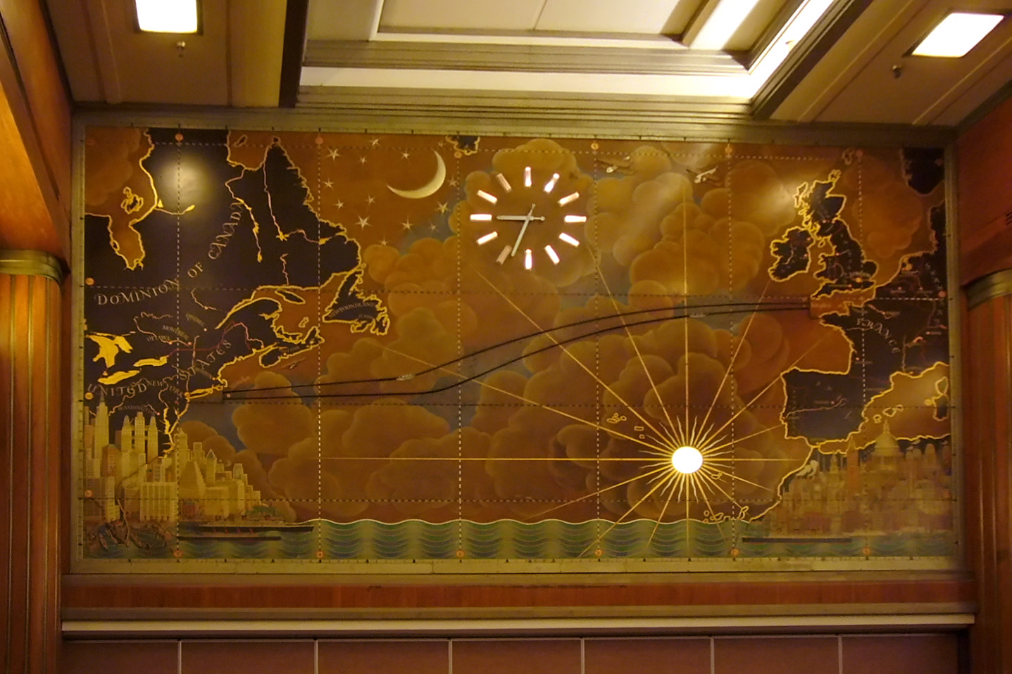 Atlantic Map in the Royal Salon, RMS Queen Mary, Long Beach, Calif.